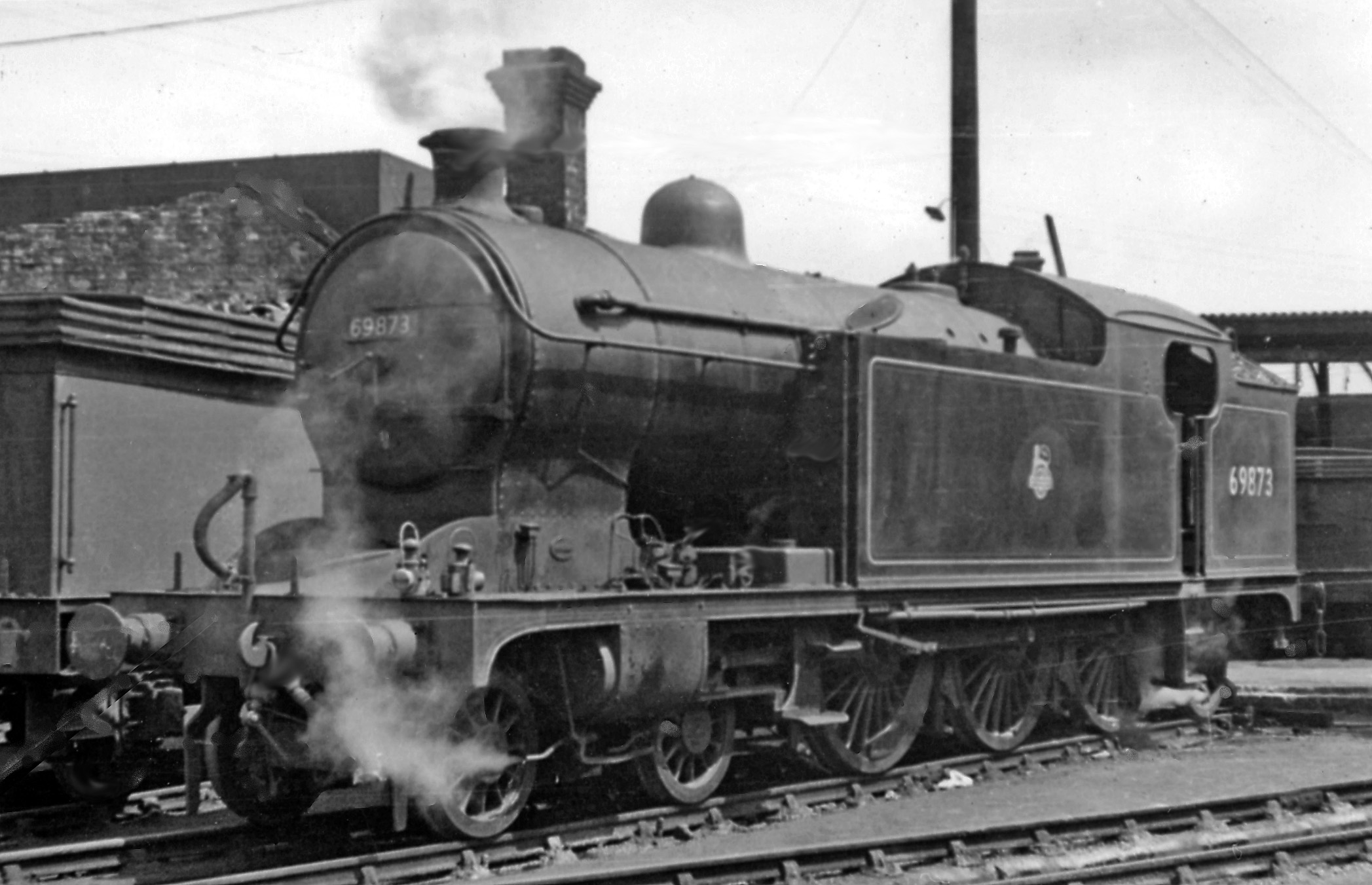 Ex-North Eastern Raven Class A8 4-6-2T at Middlesbrough Locomotive Depot. This locomotive, No. 69873, was one of a batch of A8 4-6-2T's employed on the passenger services between Saltburn, Redcar, Middlesbrough and Darlington/Stockton etc.